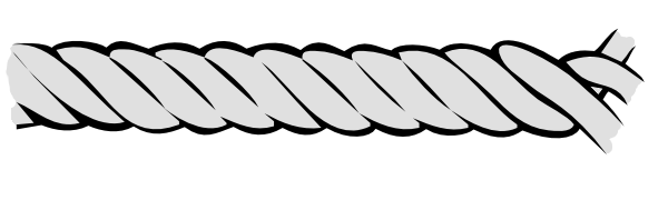 rope without whipping (GNU-FDL), selfdrawn drawing by: Hella Handdrawing 1995, 2004 new revised with autotrace [1], sodipodi[2] and gimp [3] for the german wikipedia. first publicated: 1995 in Knoten (nicht nur) für Pfadfinderinnen, publisher PSG München alternative view (all steps one picture): common wipping binding other pictures of this series: step 1, step 2, step 3, finished common wipping 17:56, 21 May 2004 Hella 600x180 (29,600 bytes) (*bind a common whipping (step 1), selfdrawn, GNU-FDL)